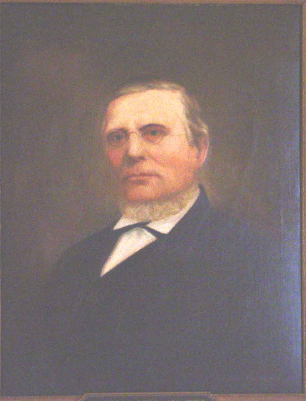 Thomas Hill Watts (January 3, 1819–September 16, 1892), was the Democratic Governor of the U.S. state of Alabama from 1863 to 1865, during the Civil War.